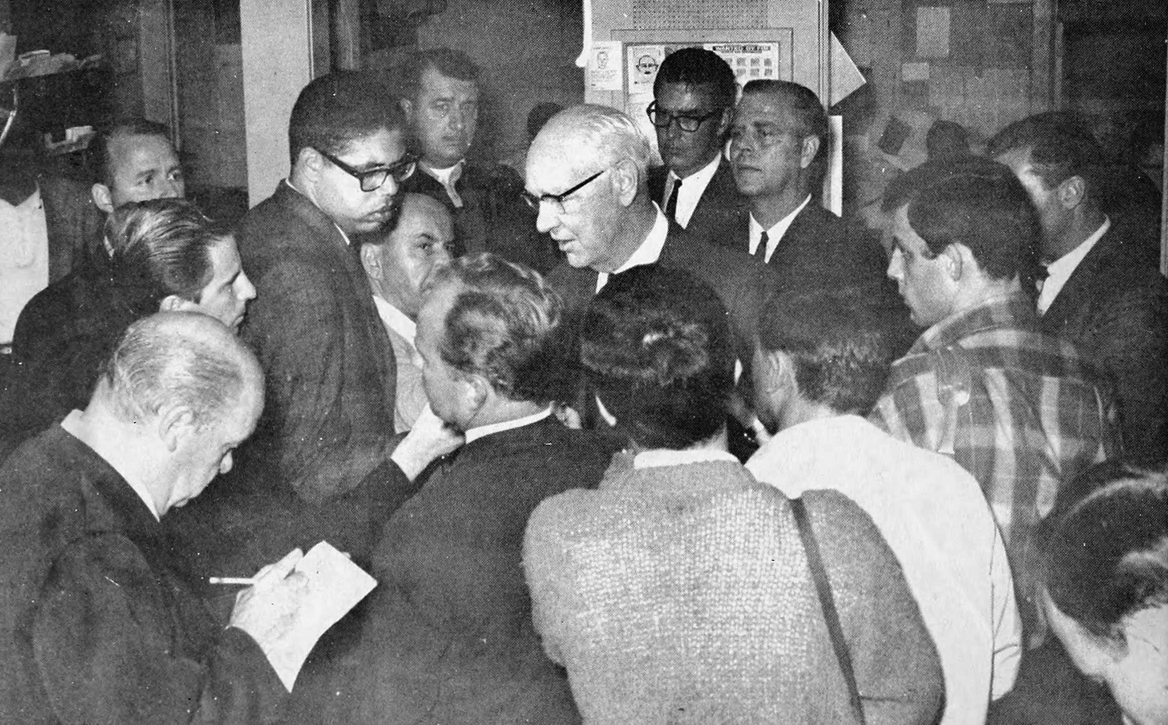 Page 140 from the "128 Hours" report.